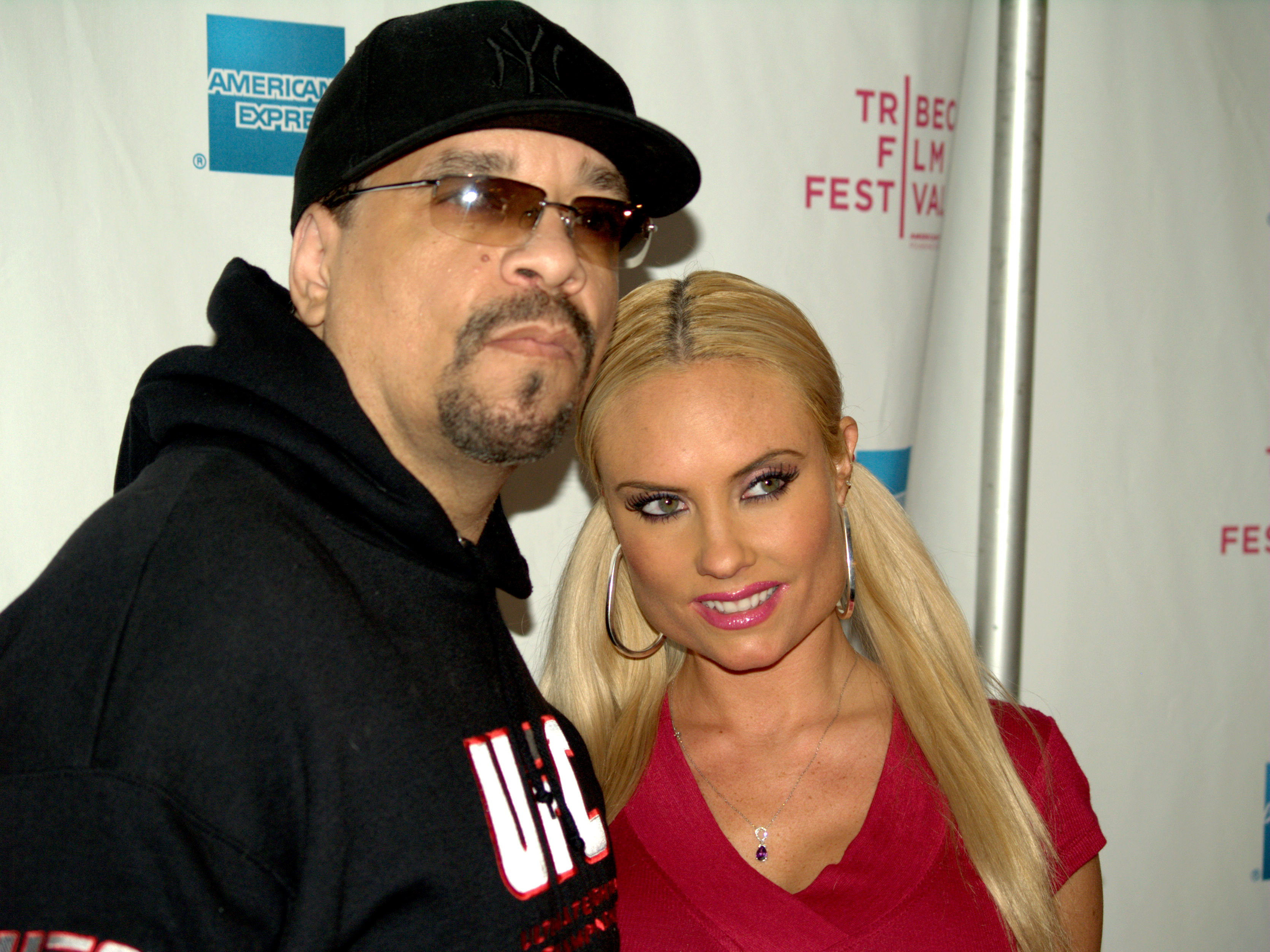 Ice-T and Coco at the 2009 Tribeca Film Festival for the premiere of Burning Down the House, a documentary about famous New York City rock and roll venue CBGB. Photographer's blog post about this event and photograph.